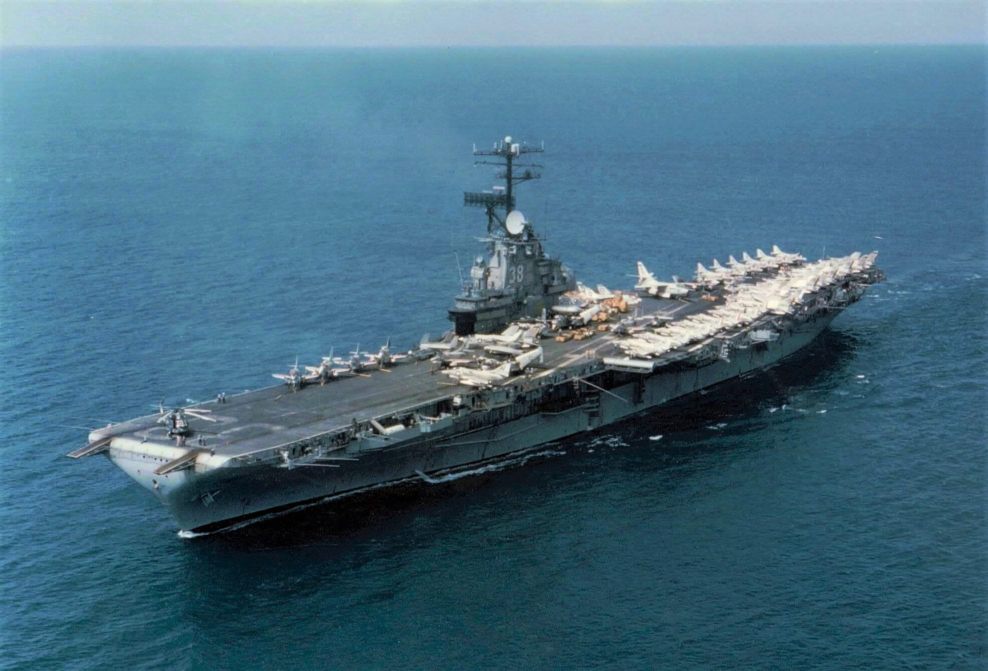 The U.S. Navy aircraft carrier USS Shangri-La (CVS-38) cruises toward Roosevelt Roads, Puerto Rico, on 11 February 1970. Shangri-La was working up for her last deployment before her decomissioning. Her last cruise, with assigned Carrier Air Wing 8 (CVW-8), was to Vietnam and the Western Pacific from 5 March to 17 December 1970. Although nominally redesignated as an anti-submarine carrier (CVS) on 30 June 1969, the Shang still operated as an attack carrier (CVA).